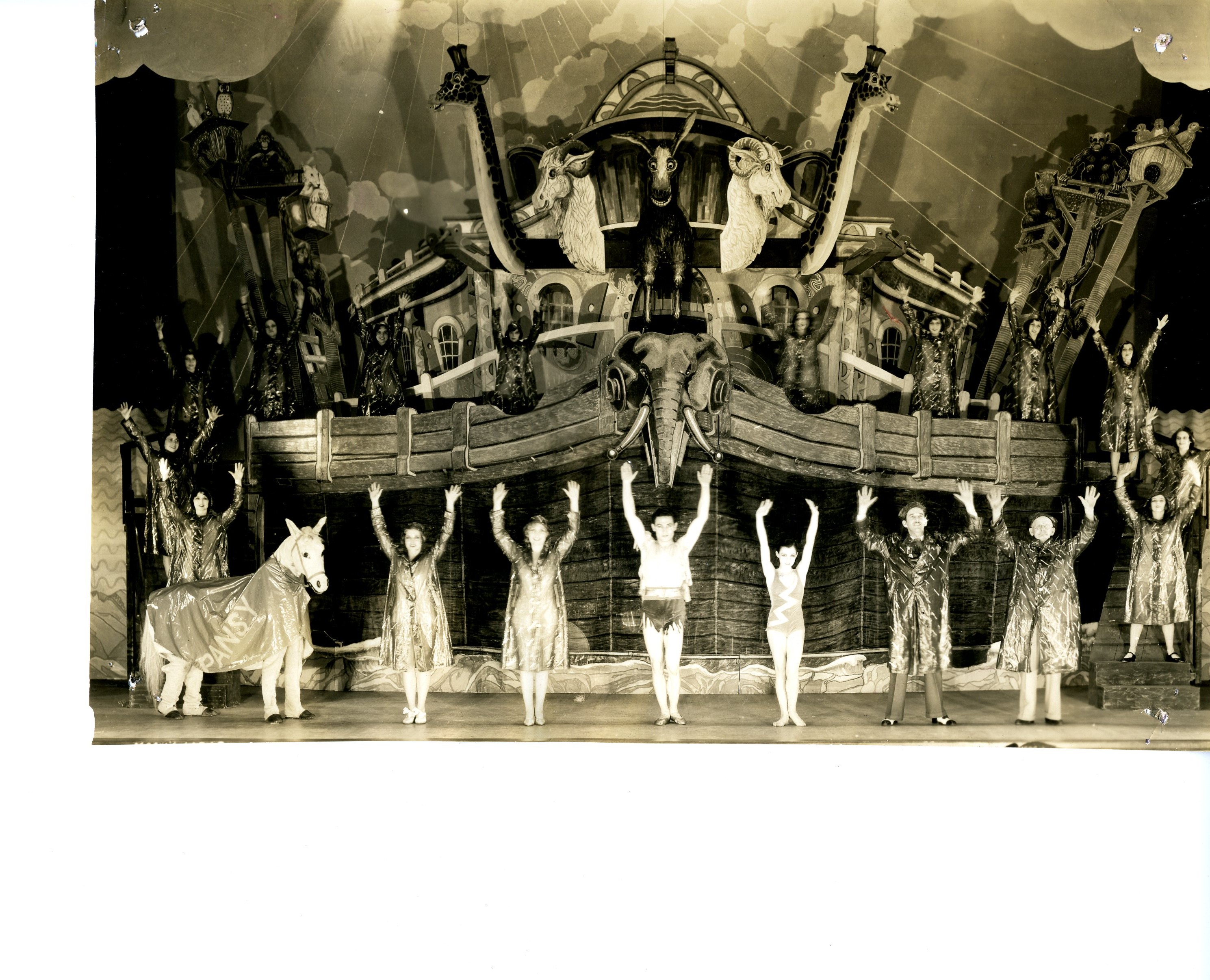 Pansy the Horse with Noah's Lark ensemble